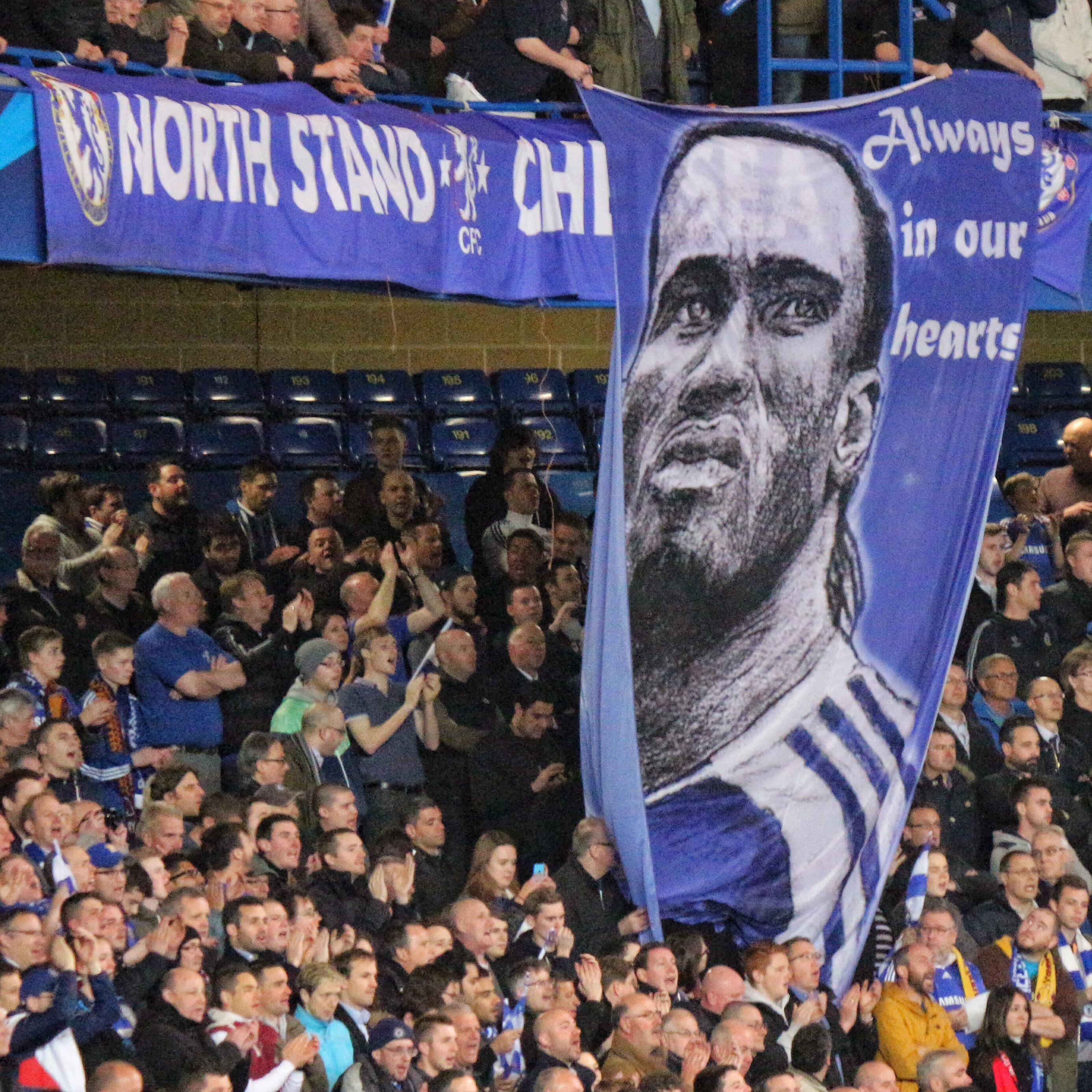 Champions League match between Chelsea and Galatasaray SK at Stamford Bridge on 18 March 2014.